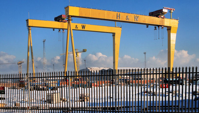 "Samson" and "Goliath", Belfast